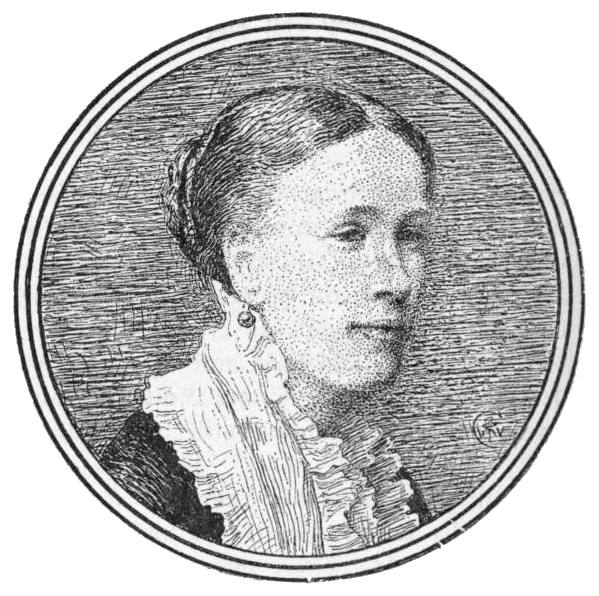 Lucy Crane portrait, originally given in Art and the Formation of Taste